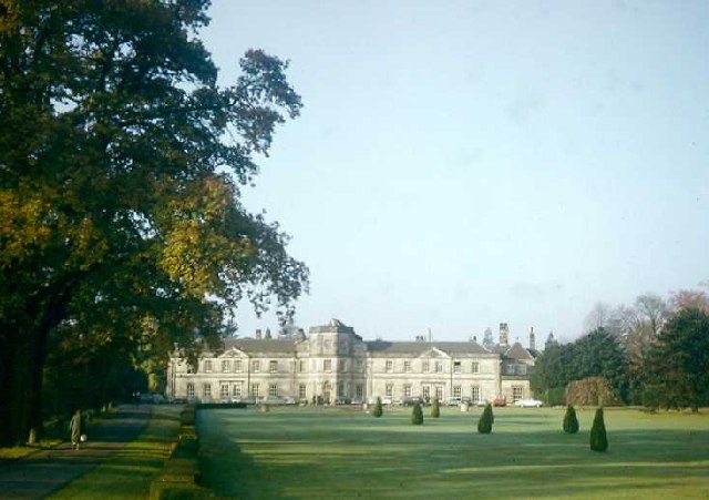 Grantley Hall, North Yorkshire, north of Risplith